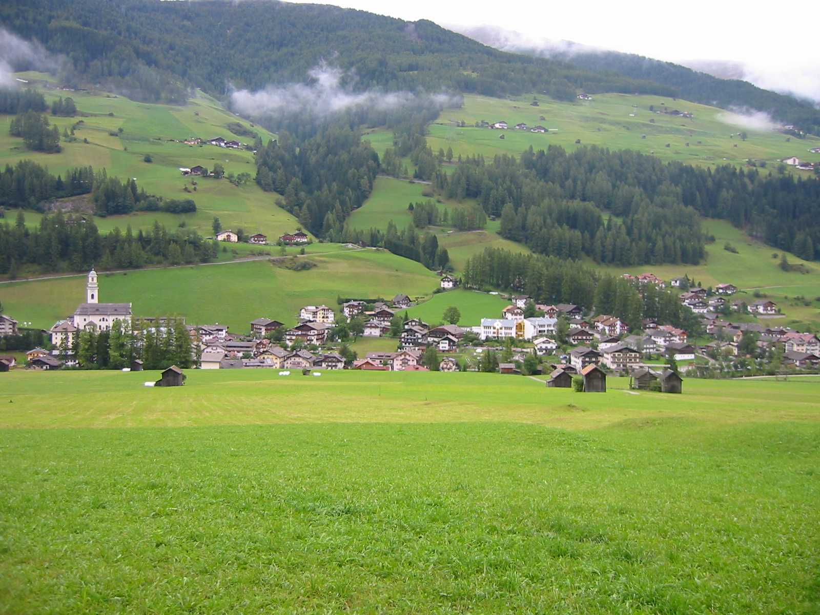 Sexten/Sesto (BZ, Italy), fotografiert im September 2004 von Fantasy :-)